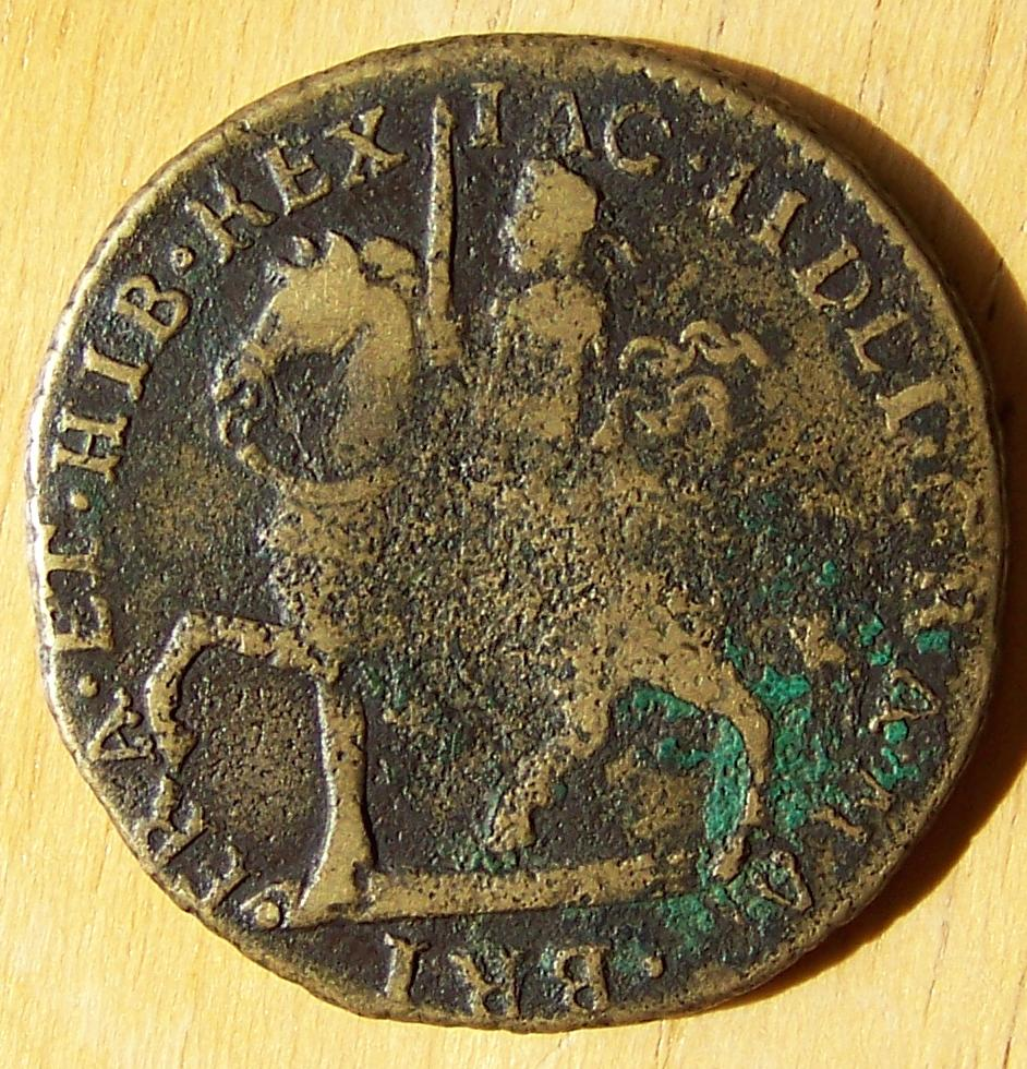 Brass crown coin from Ireland, 1690. Featuring James II on horseback, this is an example of the so-called "gun money".